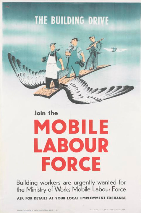 Join the Mobile Labour Force whole: the image is positioned in the upper half. The title and text are separate and located in the lower half, in black and in red. Further text is integrated and placed in the upper centre, in white. All set against a white background. image: a full-length depiction of three workers, carrying various tools. They stand on a flying plank of wood that has oversized bird's wings attached either side. Another plank, carrying two more workers holding a ladder, flies in the background. text: DEKK THE BUILDING DRIVE Join the MOBILE LABOUR FORCE Building workers are urgently wanted for the Ministry of Works Mobile Labour Force ASK FOR DETAILS AT YOUR LOCAL EMPLOYMENT EXCHANGE ISSUED BY THE MINISTRY OF LABOUR AND NATIONAL SERVICE P.P. 122 Printed for H.M. Stationery Office by Fosh and Cross Ltd., London (51/2741)